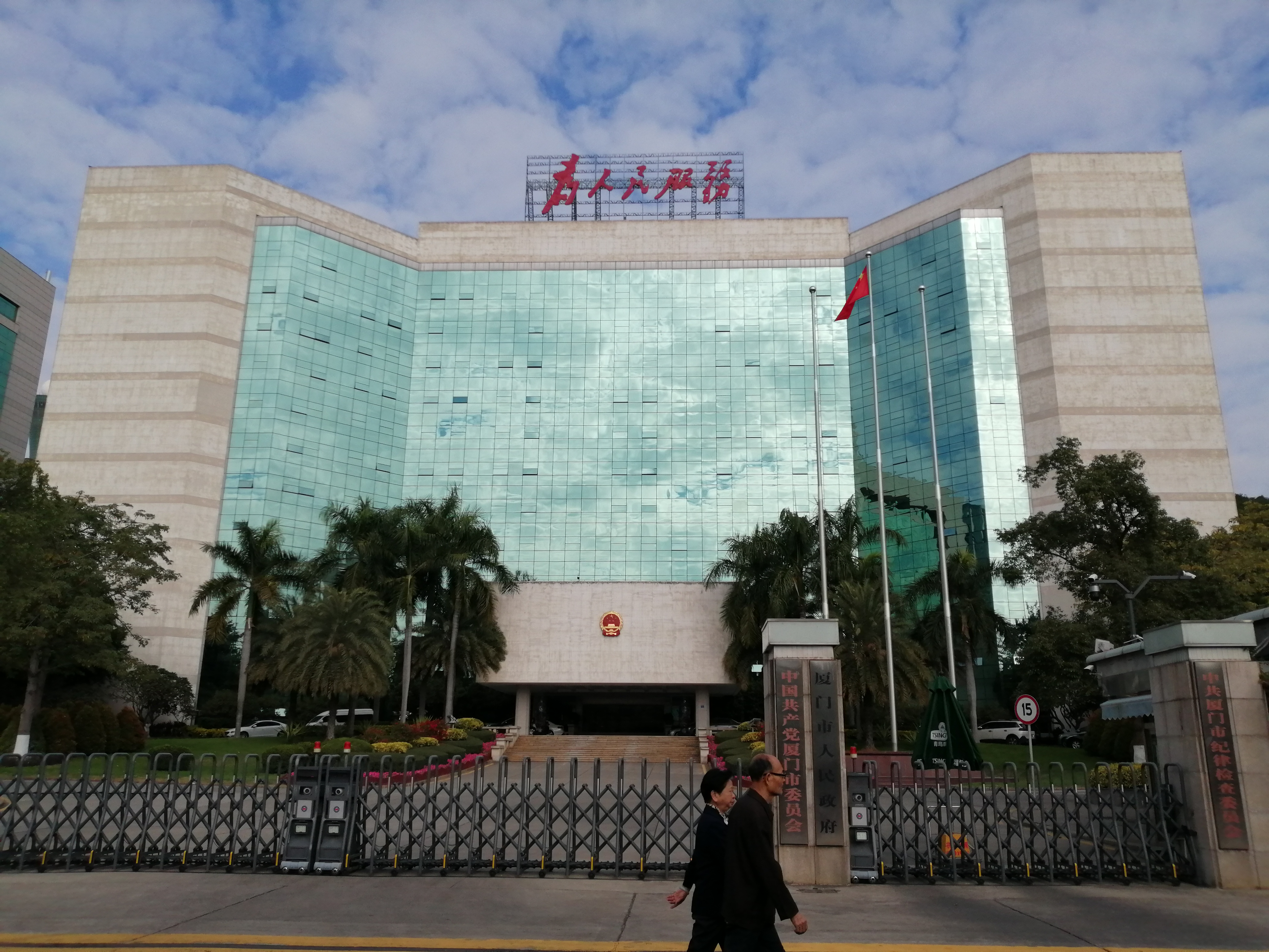 City Hall of Xiamen City, located on Hubin North Road, Siming District. 中文（中国大陆）: 厦门市政府大楼，同时为中共厦门市委、市人大、市政协、市纪委、市监委的机关驻地。